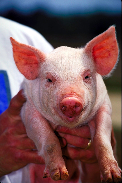 cute piglet (Sus scrofa a.k.a. Sus domesticus)